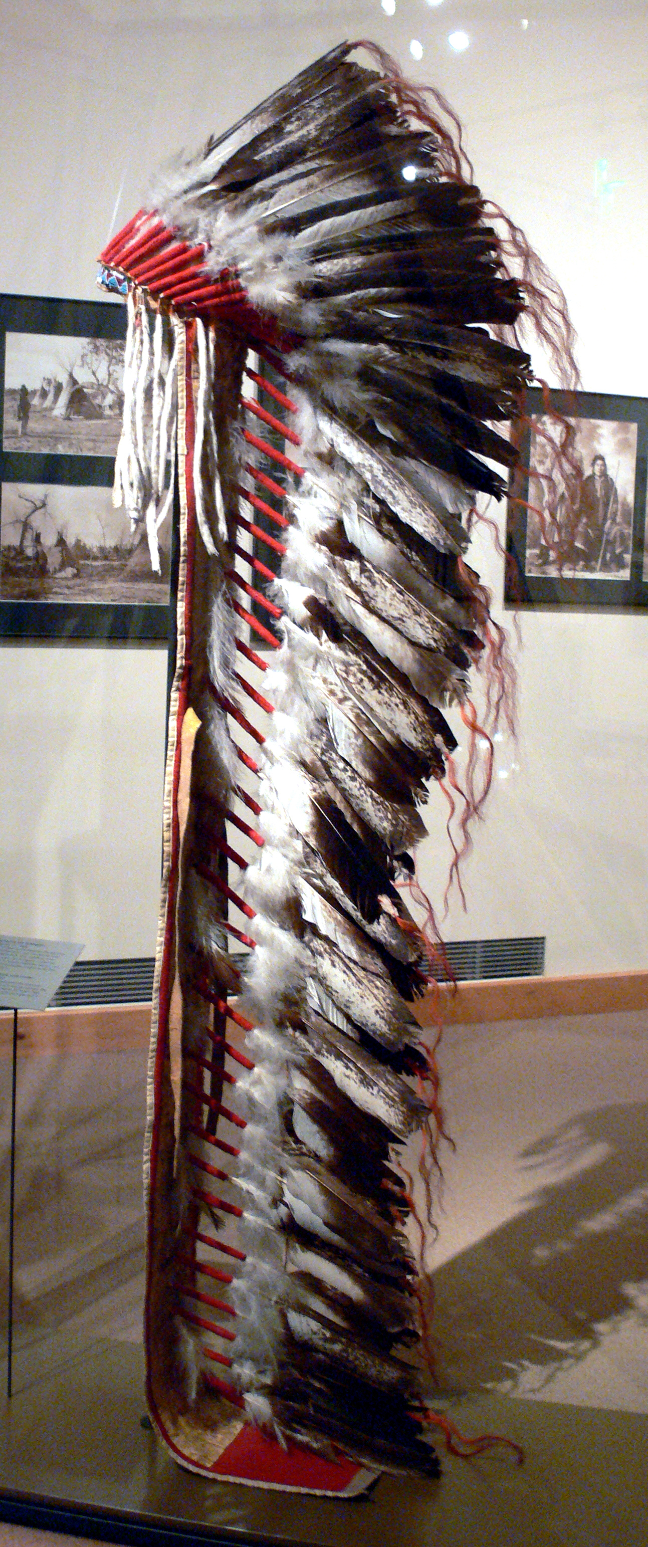 Feather headdress with trailer; Comanche, c. 1880; North America department, Ethnological Museum, Berlin, Germany